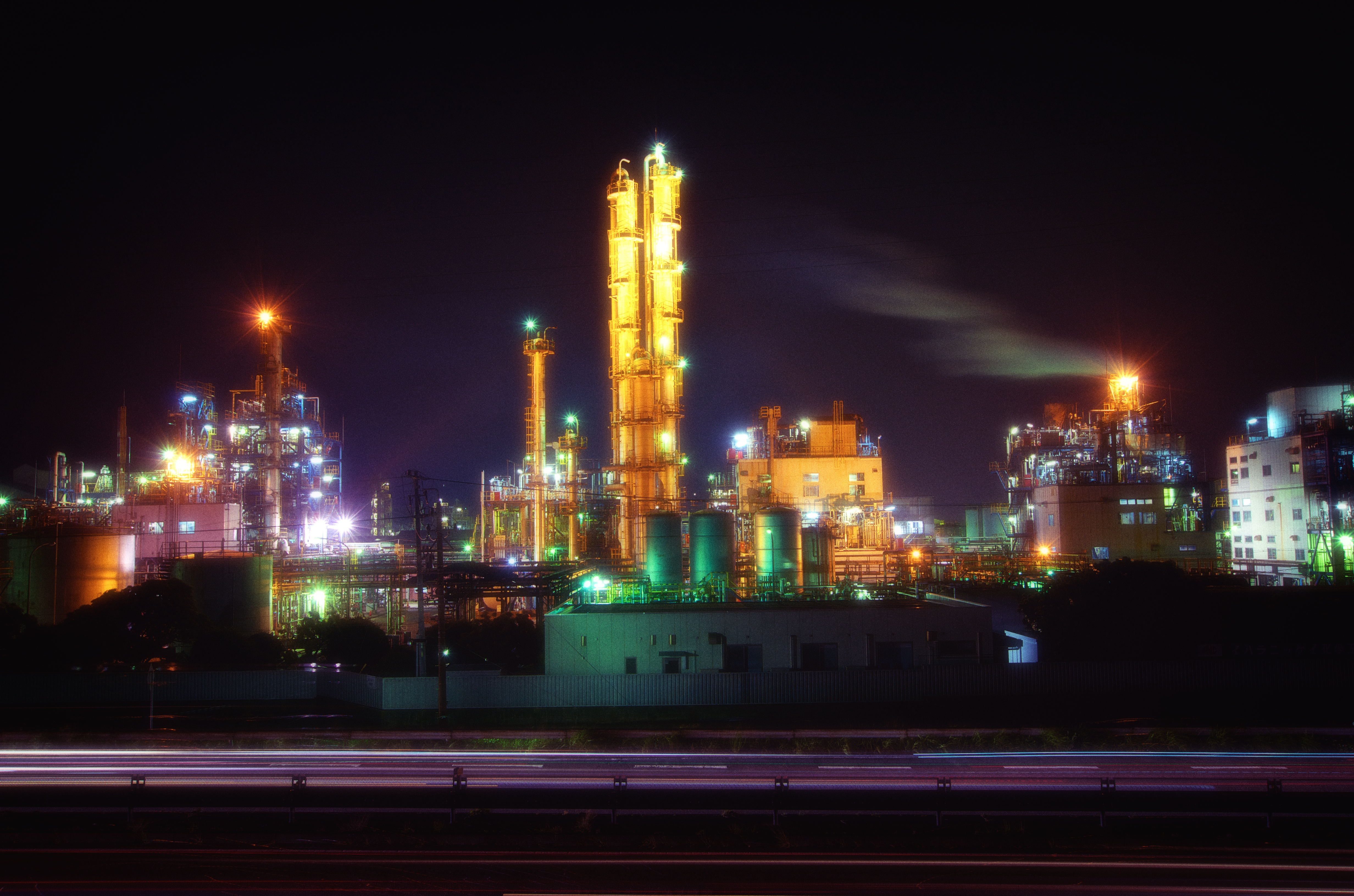 haranikkei Chemical Industry